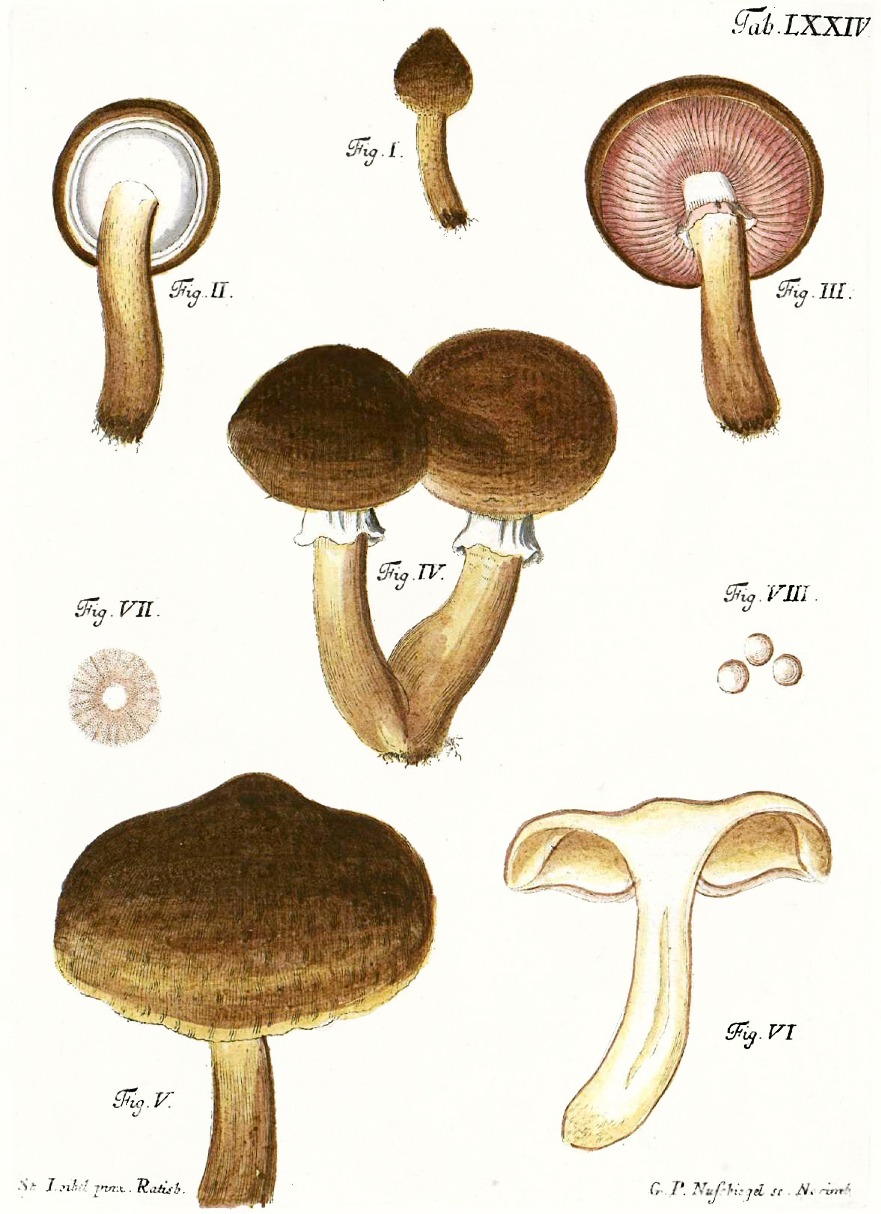 Explanation of the 2nd plate by the author J.C. Schäffer (in German und Latin) The plate shows Agaricus obscurus Schaeff., Fungorum qui in Bavaria et Palatinatu circa Ratisbonam nascuntur icones, Vol 4: Seite 32 (1774). According to the right scientific name is now Armillaria obscura (Schaeff.) Herink